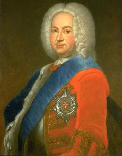 Portrait of Ferdinand Albert II, Duke of Brunswick-Lüneburg (1680-1735)